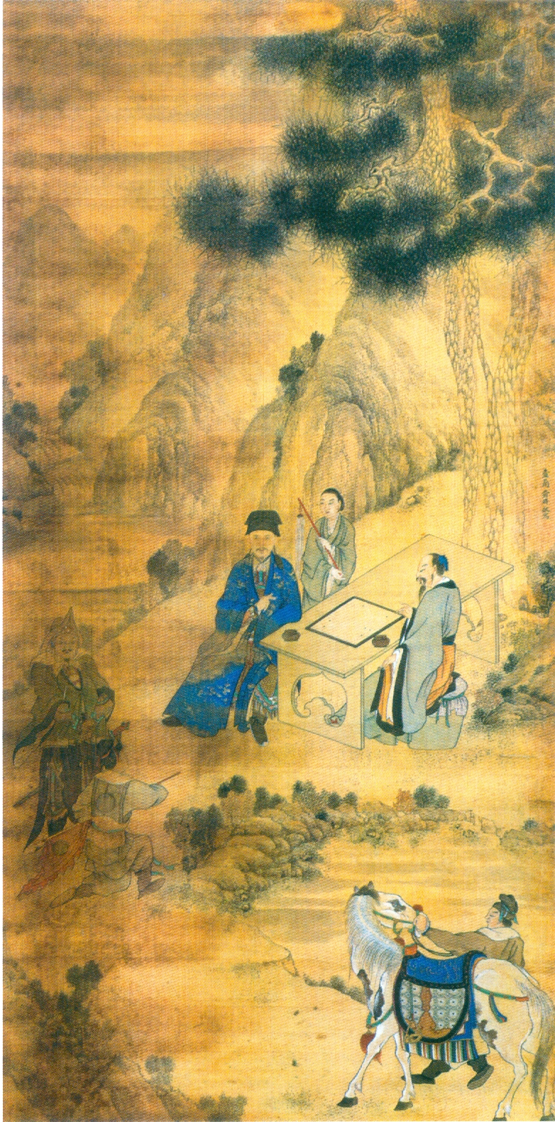 This is a portrait of Zheng Chenggong 鄭成功 (1624–1662), who is known in many western sources as "Koxinga." It carries a "One-hundred character eulogy" (百字贊) by Wang Zhongxiao 王忠孝, a high official who served in Zheng's government. Ming Dynasty. The original painting on silk measures 130.5 cm x 65 cm.